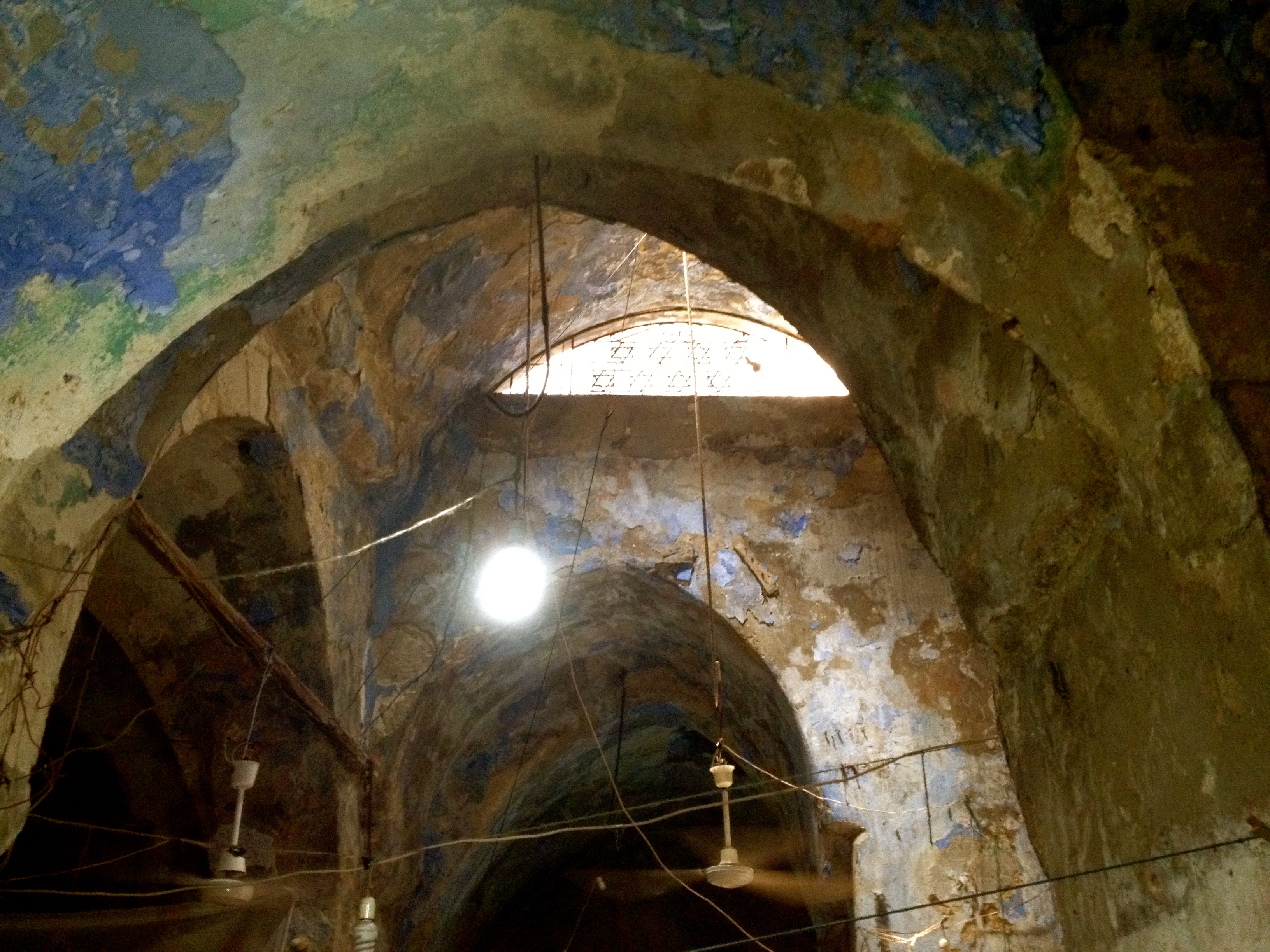 A picture of the synagogue in Sidon taken in 2012